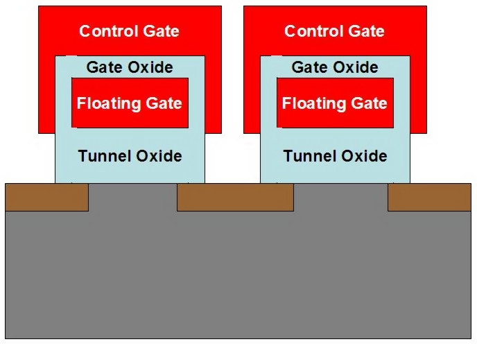 A conceptual diagram to illustrate how NAND flash manufacturers use caps to isolate inter-cell capacitive coupling that could lead to read disturb.